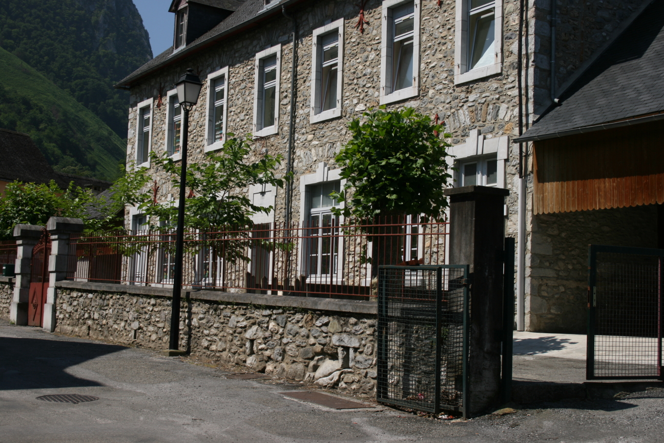 Accous, Aspe-valley, France: School building